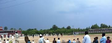 Govt. High School